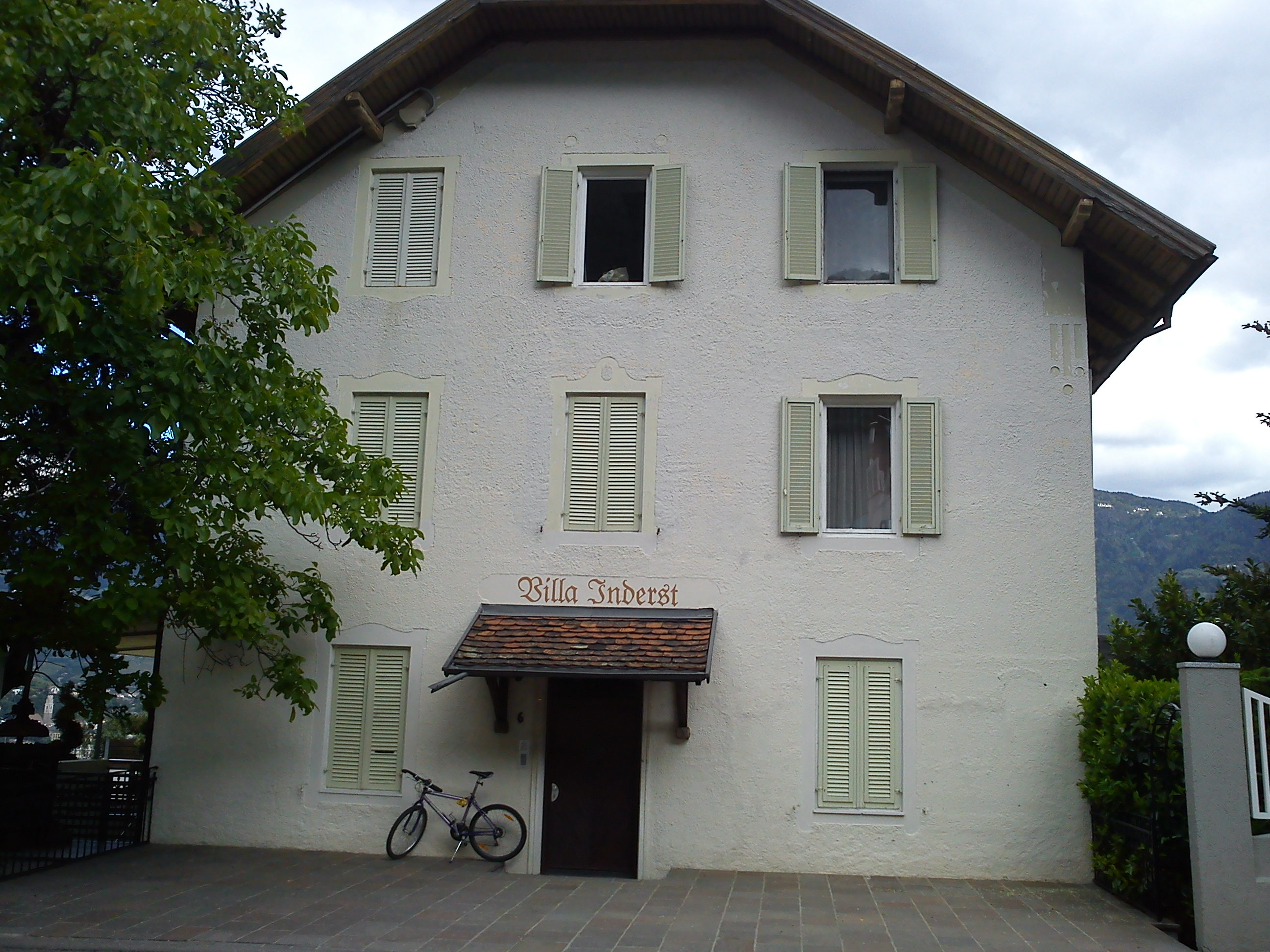 Villa Inderst in Marling (2010), demolished 2012